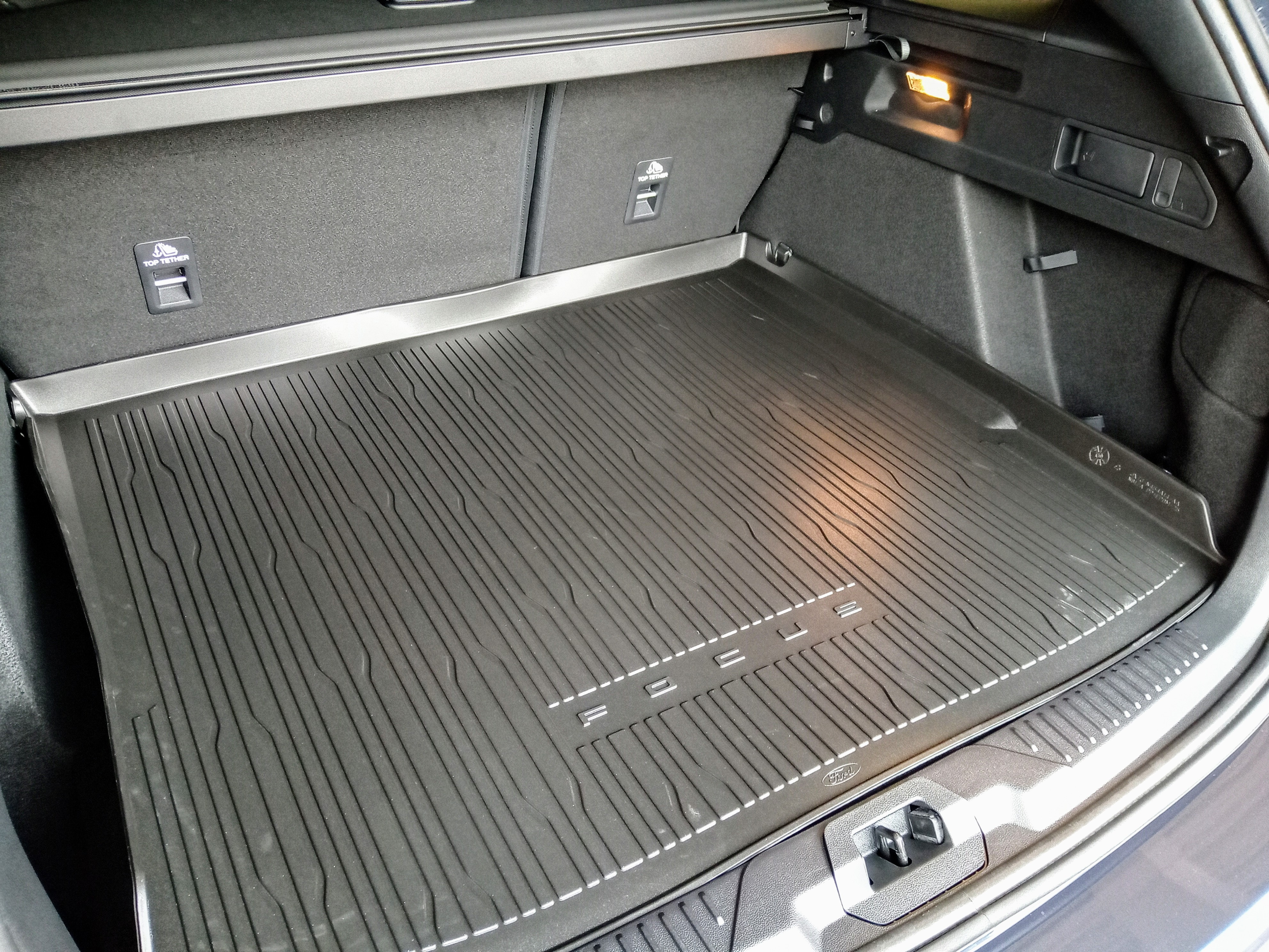 A trunk liner in a 2020 Ford Focus Turnier